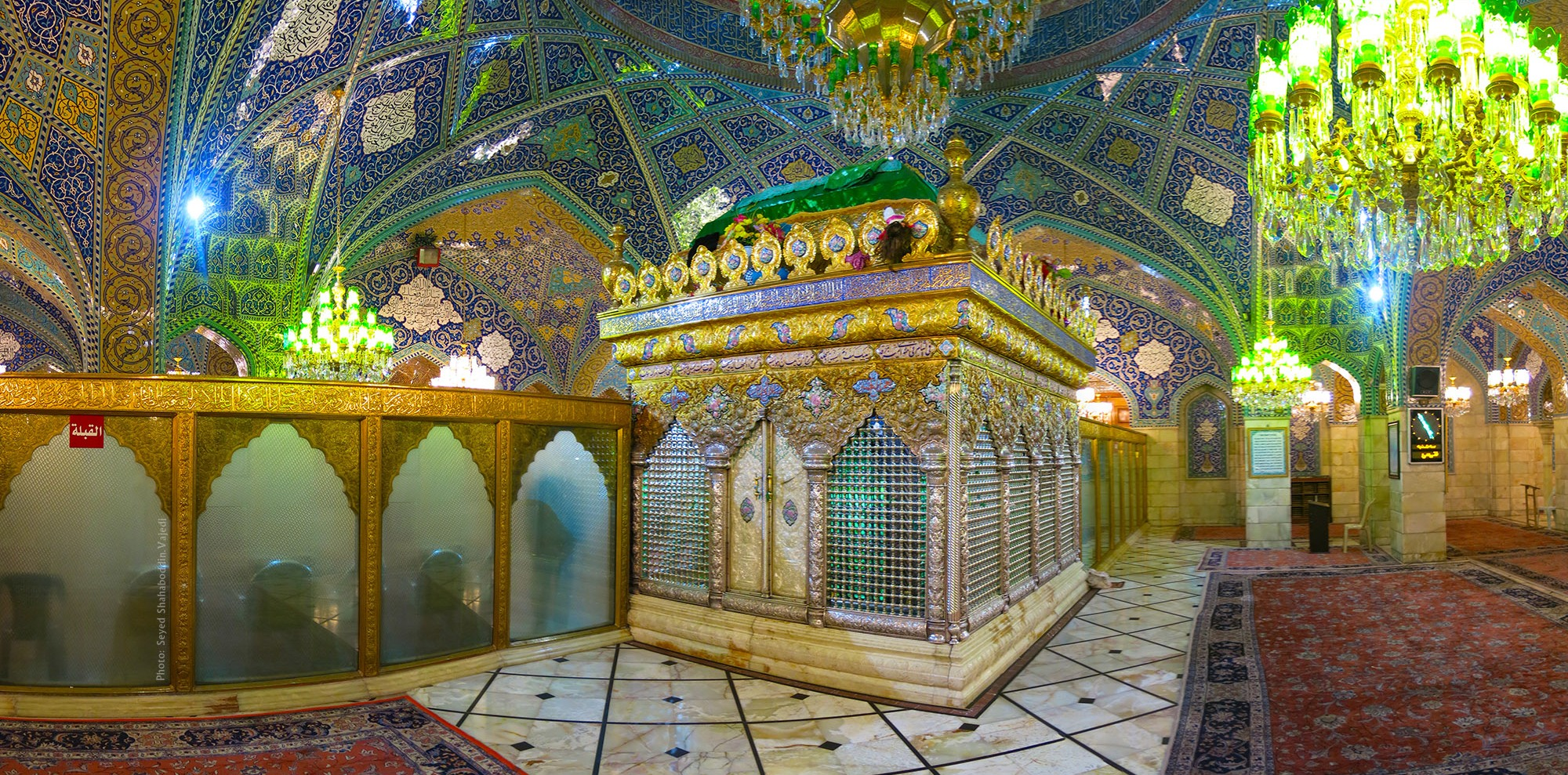 Zarih of Sukayna bint Husayn or Ruqayyah bint Hussain